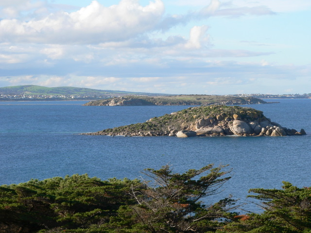 Wright Island, in front of Granite Island in Encounter Bay at Victor Harbor